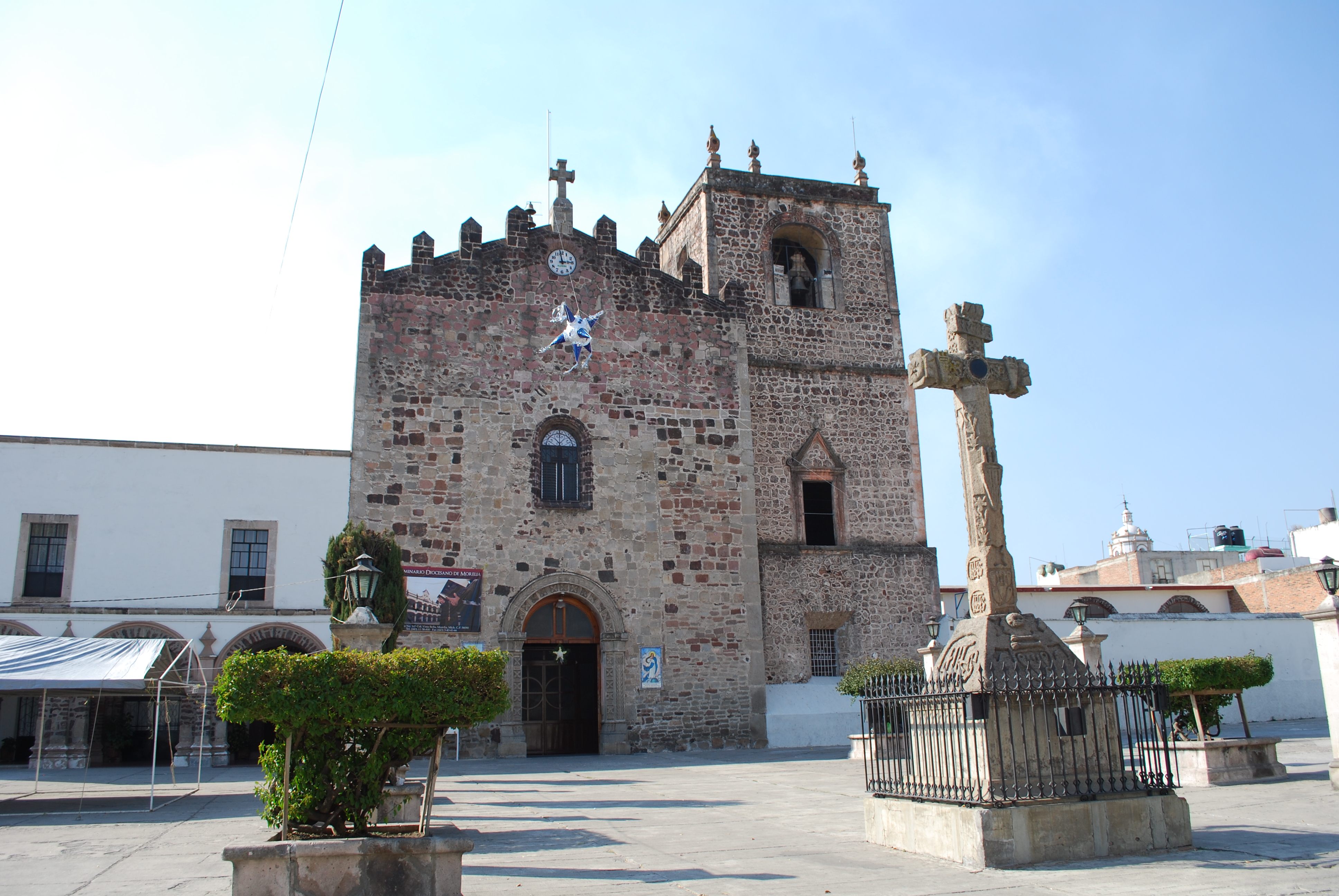 View of the San Jose parish in Ciudad Hidalgo, Michoacan